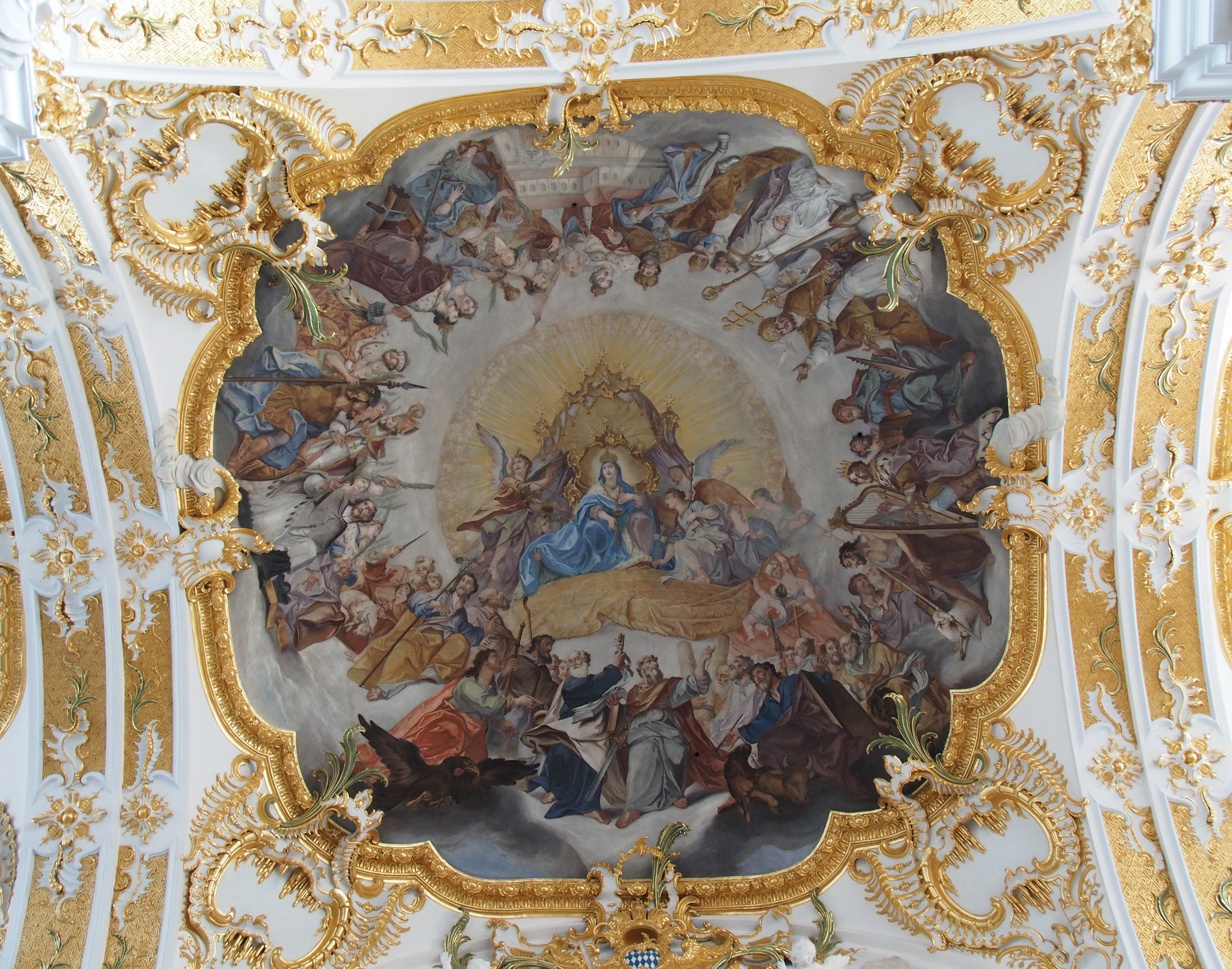 Fresco by Christoph Thomas Scheffler, 1752, above the crossing in the Old Chapel of Our Lady in Regensburg, Bavaria, Germany. Framed by gilded stucco, Mary is depicted as the Queen of Heaven, surrounded by the Faithful.